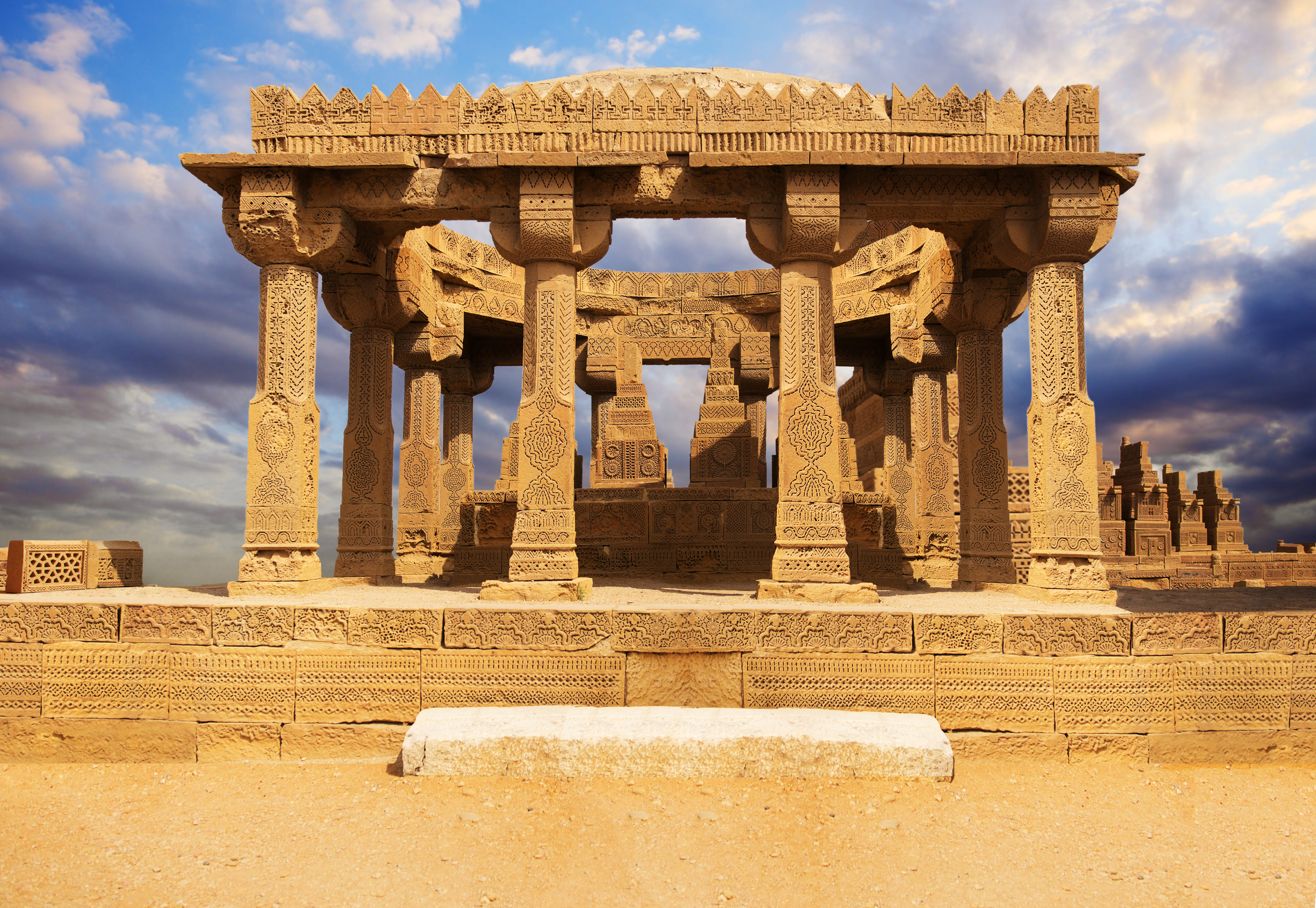 Sindh Monument at Chaukhandi, Pakistan.The Chaukhandi tombs form an early Islamic cemetery. Chakuandi, Sindh, Pakistan.The style of architecture is typical to the region of Sindh. Generally, the tombs are attributed to the Jokhio and known as the family graveyard of the Jokhio tribe, although other, mainly Baloch, tribes have also been buried here. They were mainly built during Mughal rule sometime in the 15th and 18th centuries when Islam became dominant.